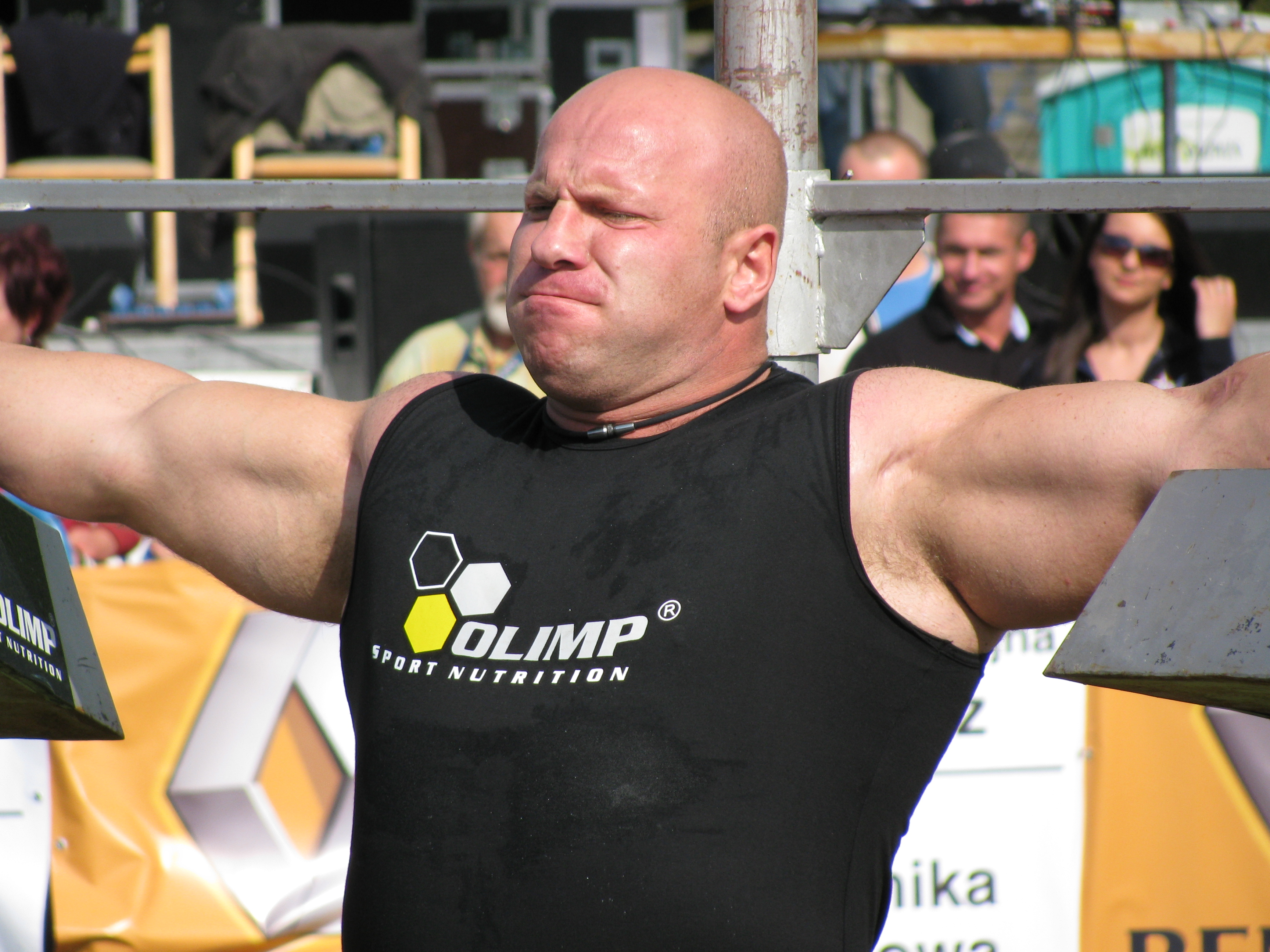 Robert Szczepanski - a strength athlete from Poland at Crucifix Hold.